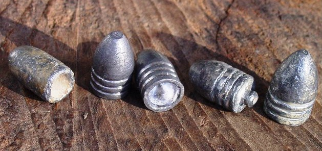 Minie Balls - rifled musket bullets. From left to right: .557 Enfield Minie Bullet, Burton Pattern Minie Bullets .58 Springfield (x 2), Williams Bullet missing zinc base, .69 Caliber Minie Bullet for modified 1843 Springfield Musket.